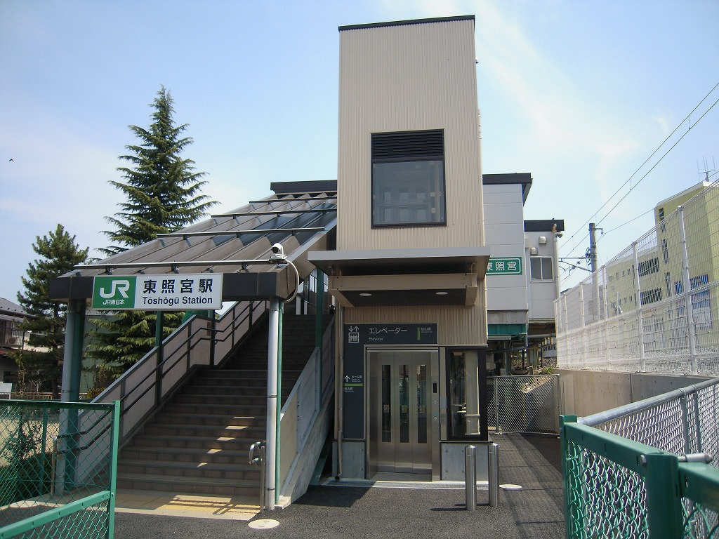 JR East Senzan-line Toshogu station